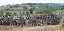 A cattle kraal in South Africa